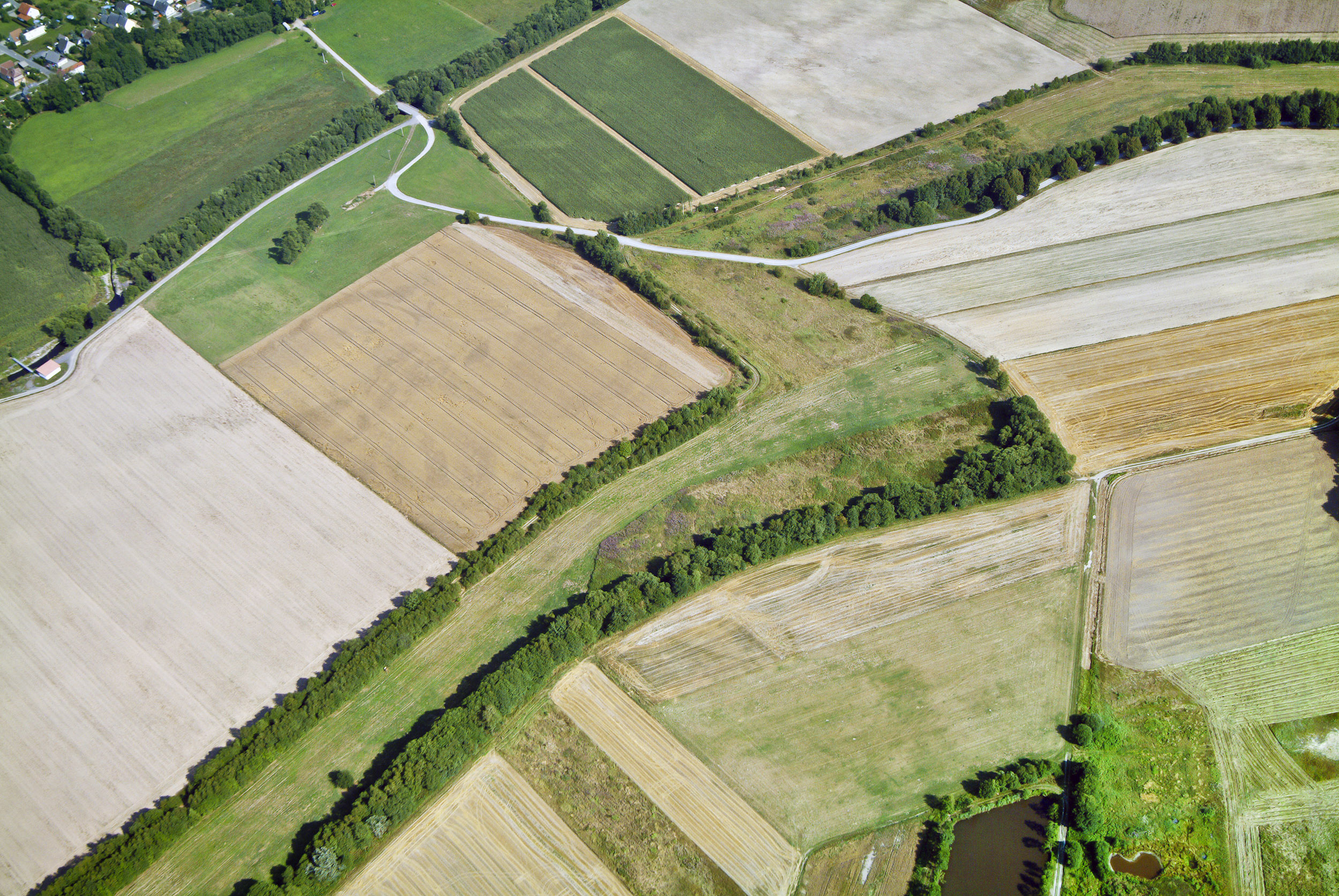 Aerial from the former boarder (Green Belt) between the two German states, between Bavaria and Thuringia, near Föritz-Mupperg